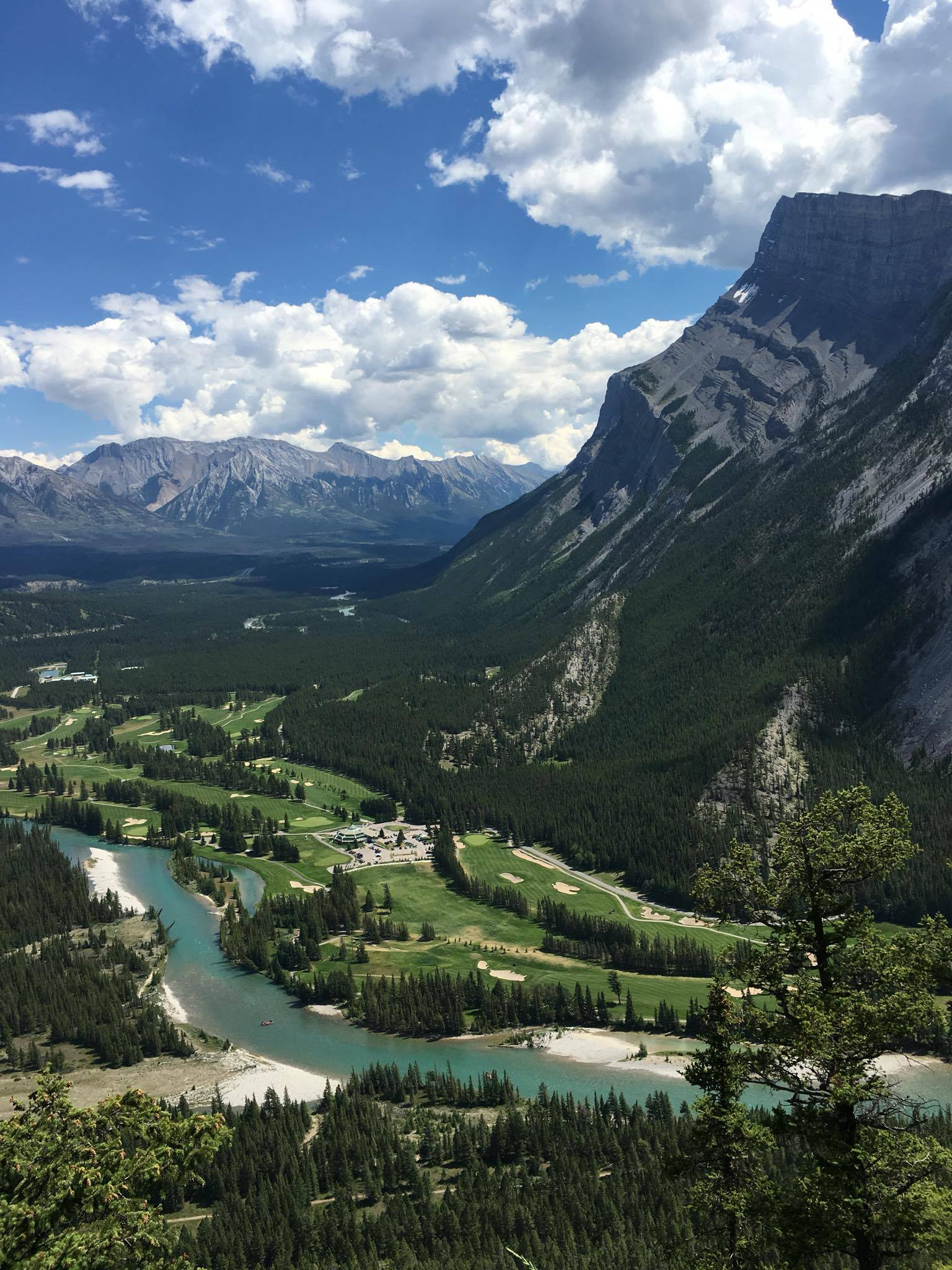 Mountains at Banff, Alberta